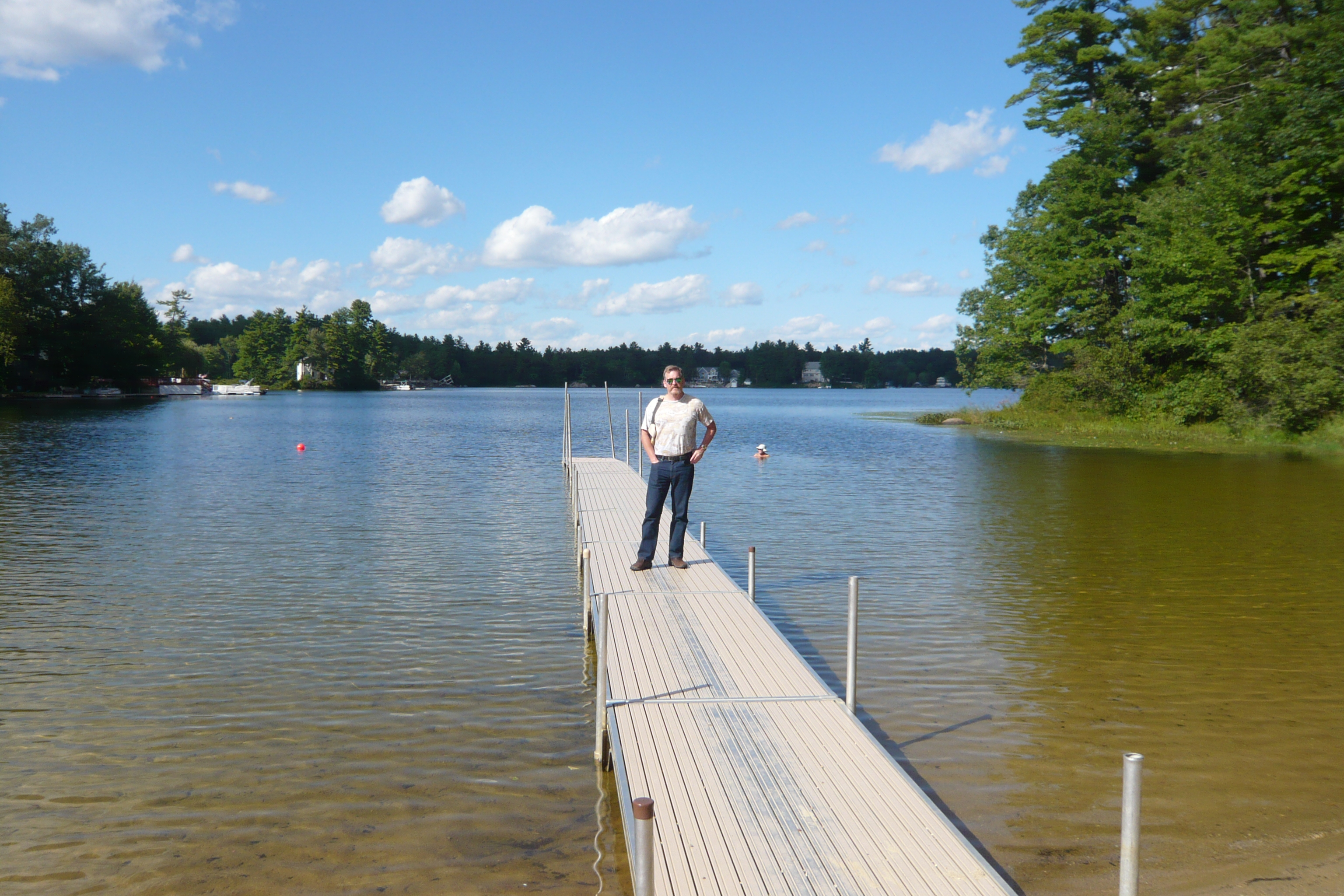 Lake Baboosic public beach and dock, Merrimack, New Hampshire